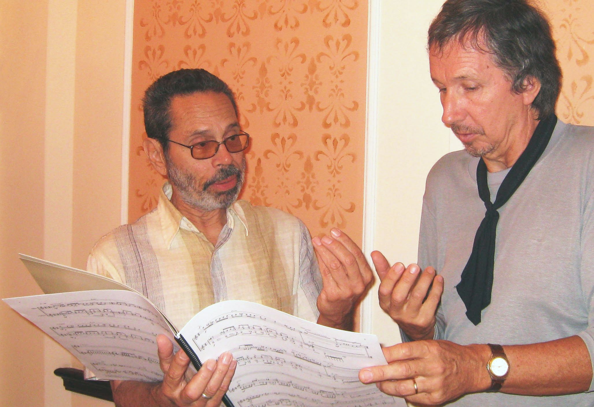 Composers Leo Brouwer and Eric Pénicaud